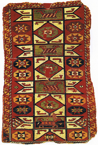 Animal carpet, newly attributed region of Turkey